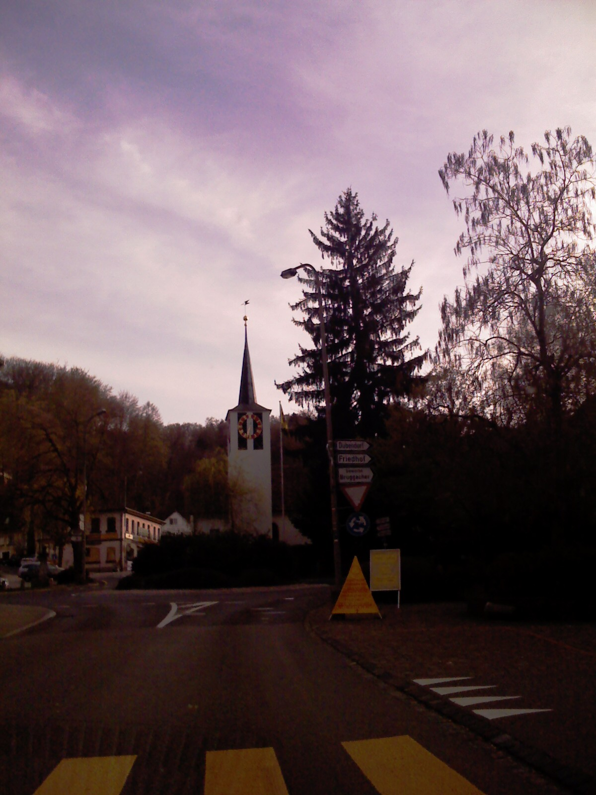 Church of Fällanden, canton of Zürich, Switzerland